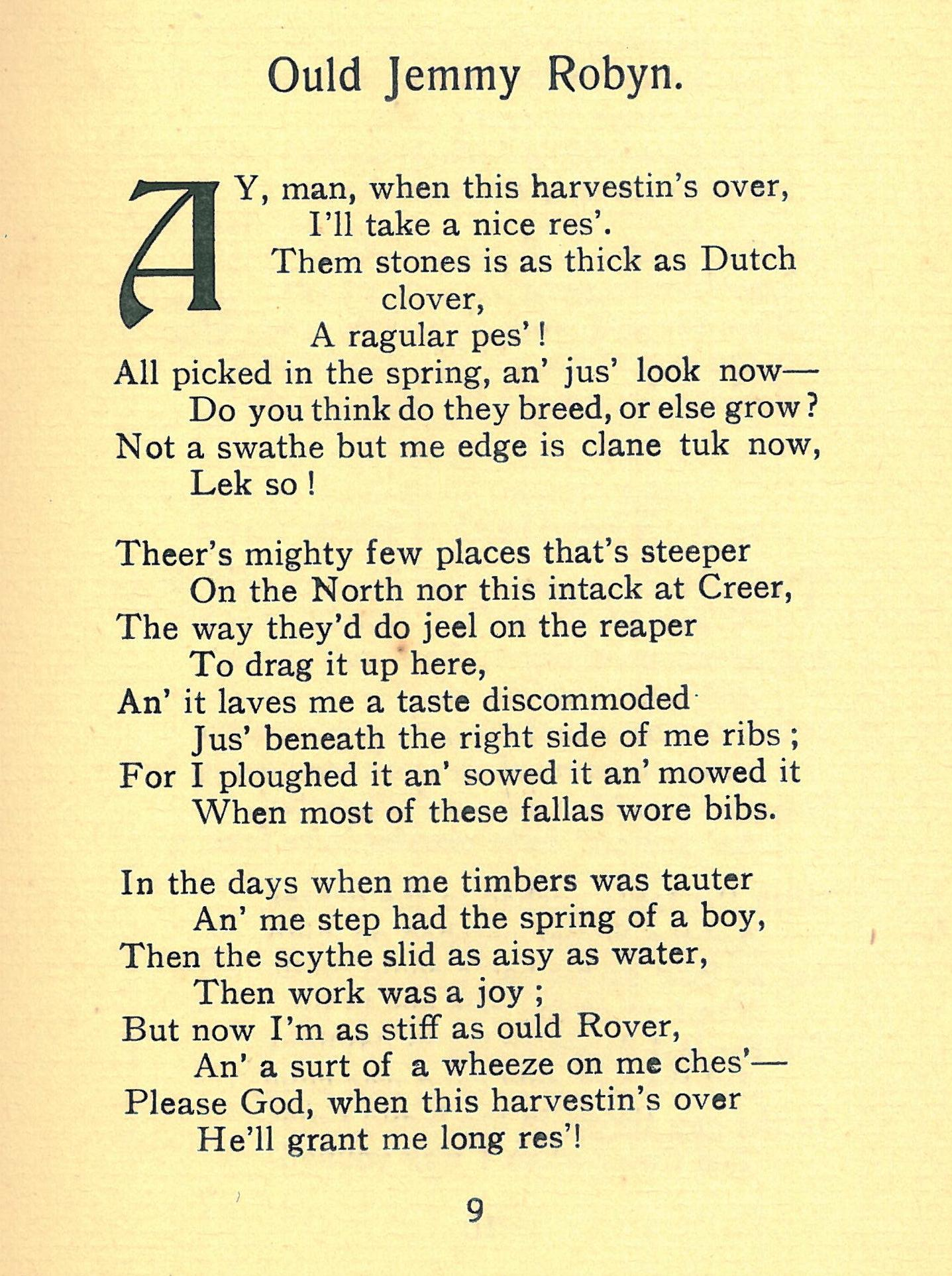 'Ould Jemmy Robyn' - a poem by W. Walter Gill in the Anglo-Manx dialect, as it appears in his collection, 'Juan-y-Pherick's Journey and Other Poems'